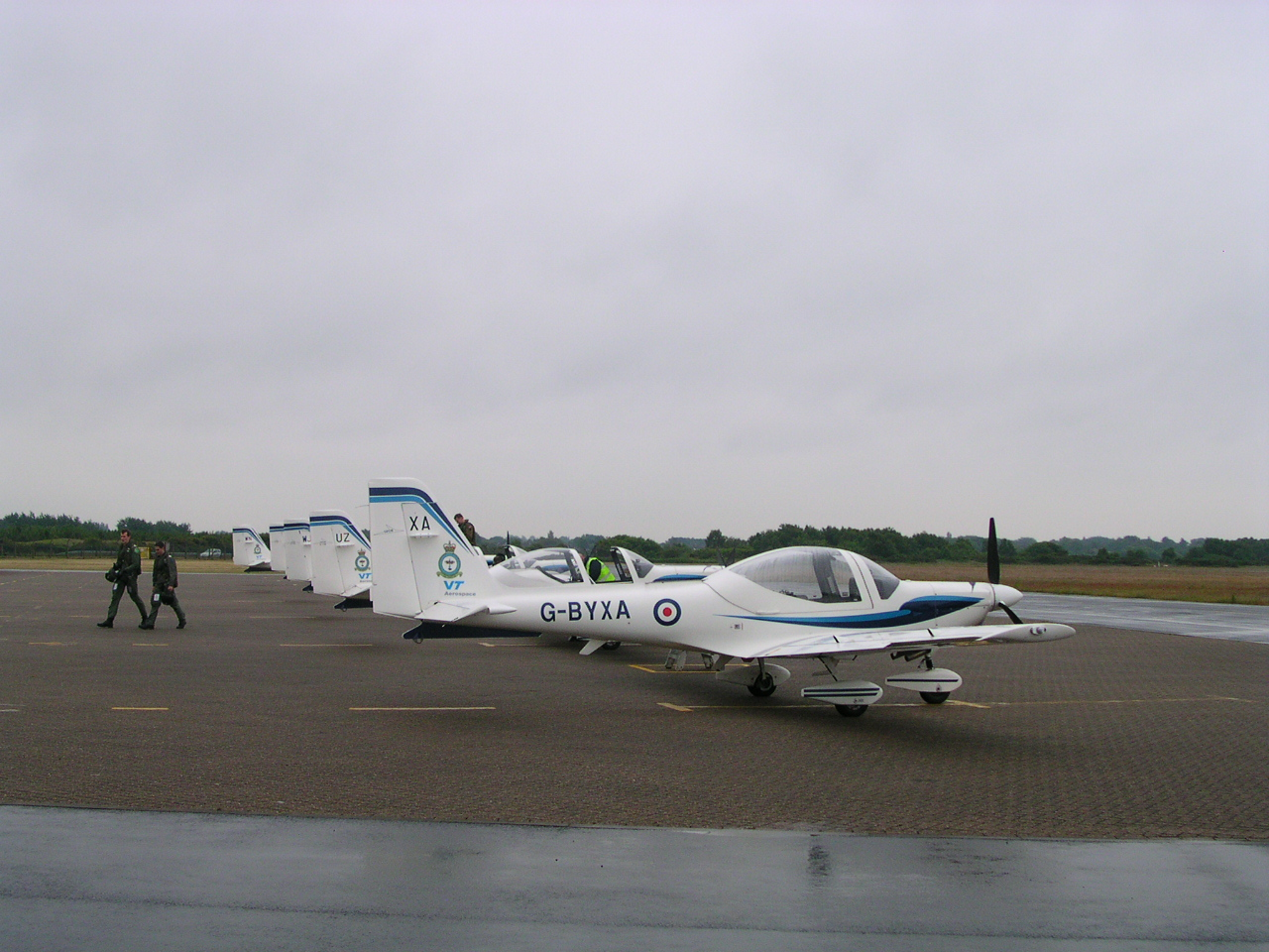 Grob Tutor aircraft at RAF Woodvale, Lancashire, England.